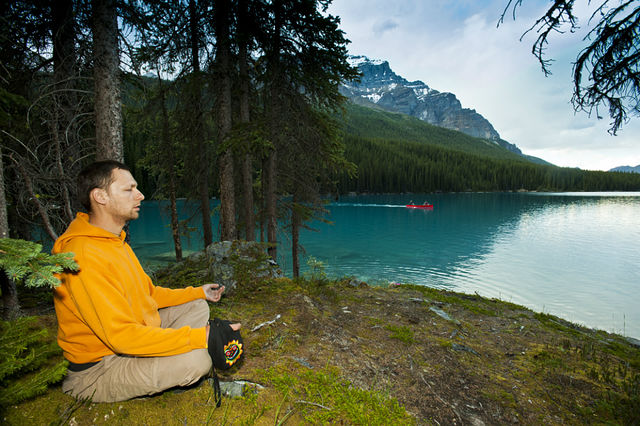 Puja, pooja, prayers vary between schools of Hinduism For yogis, and few Jnana marga Hindus, puja is often a simple meditation with or without yoga pose. Hinduism